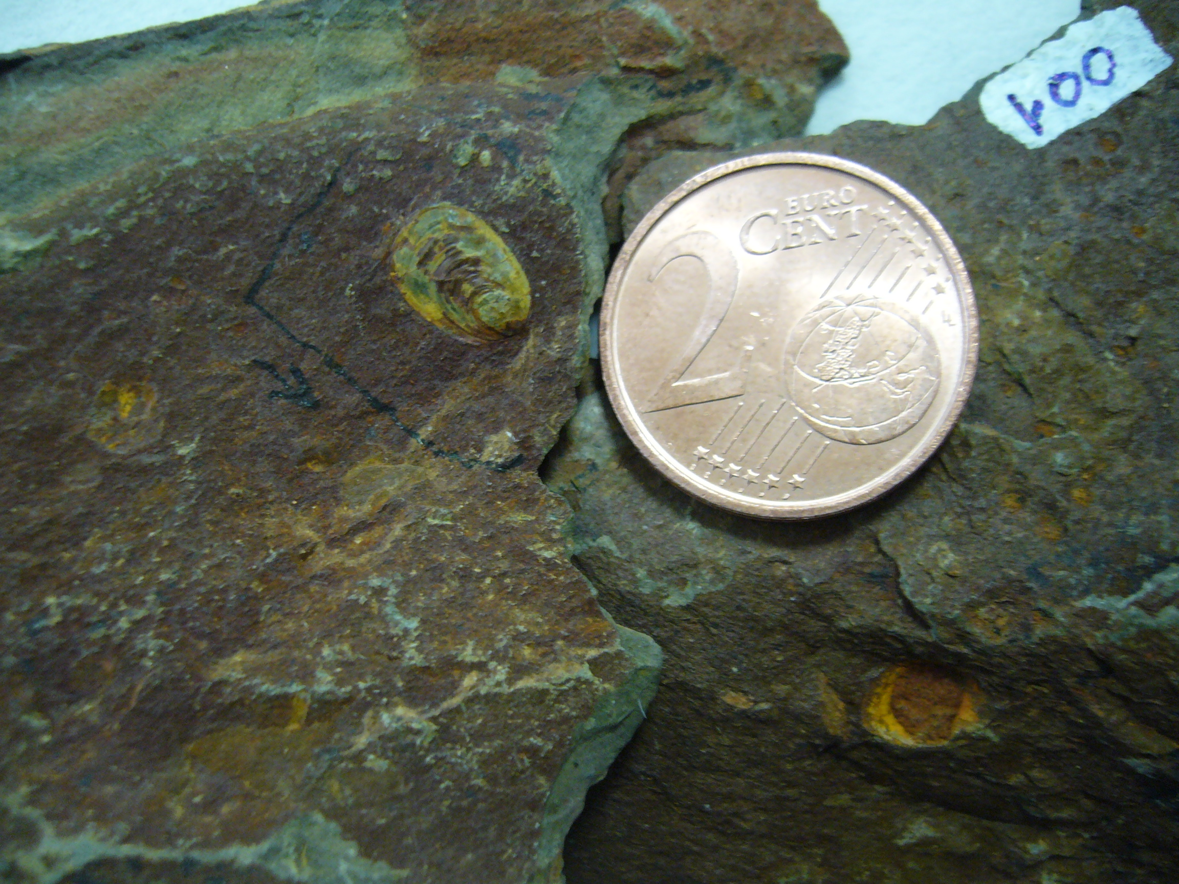 Lingula sp. fossil (Late Devonian) found in Herrera del Duque (Badajoz), in a laboratory of practices of the Faculty of Sciences of the University of Corunna.